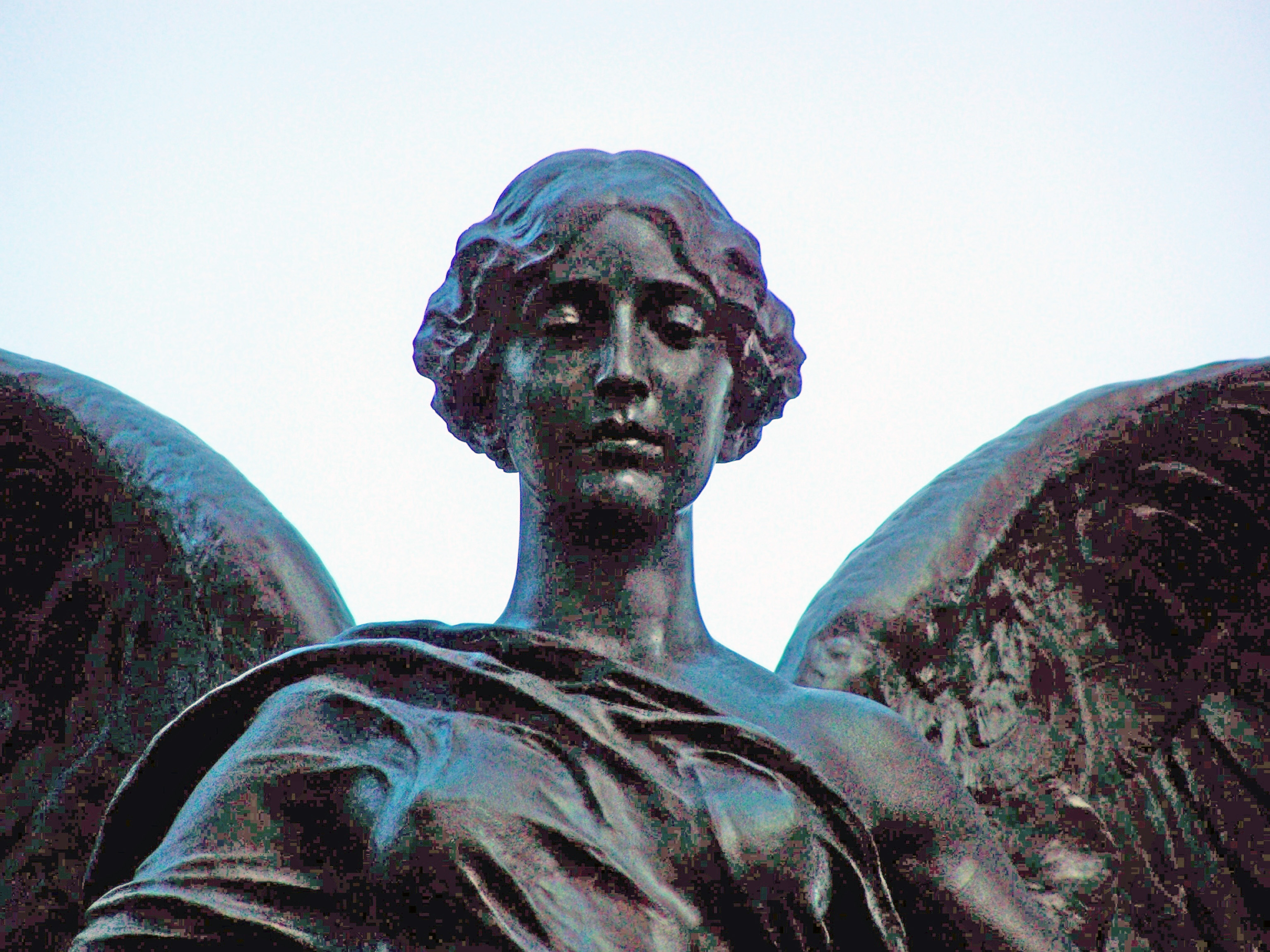 Head of Goddess Nike on Titanic Engineers' Memorial, Southampton